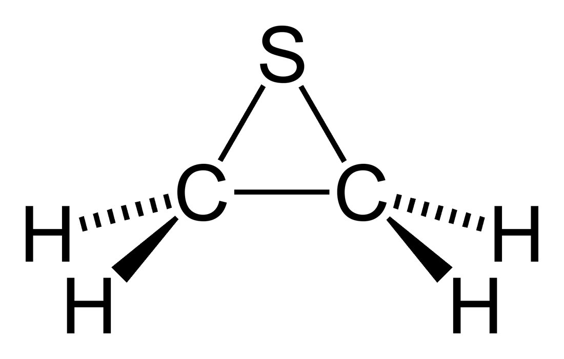 Structural formula of the ethylene sulfide (thiirane) molecule, C2H4S